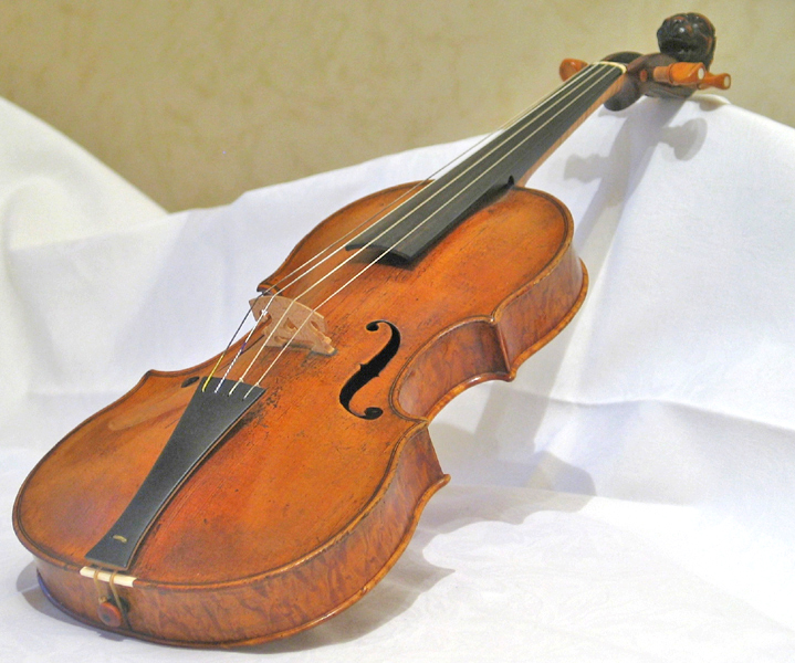 7/8 violin from 1658 by Jakob Stainer (Absam Tirol)